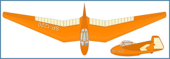 SZD 6 X Nietoperz